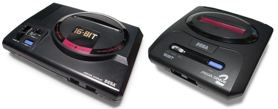 Original Japanese Mega Drive and Japanese Mega Drive 2